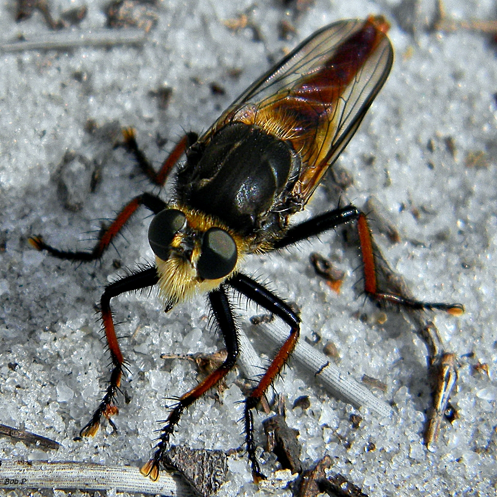 Sandy the robber fly (Proctacanthus fulviventris) photographed this year at Frenchman's Forest Natural Area. In return for a yearly portrait, Sandy agrees not to rob me. This year he is proudly sporting new yellow slippers.